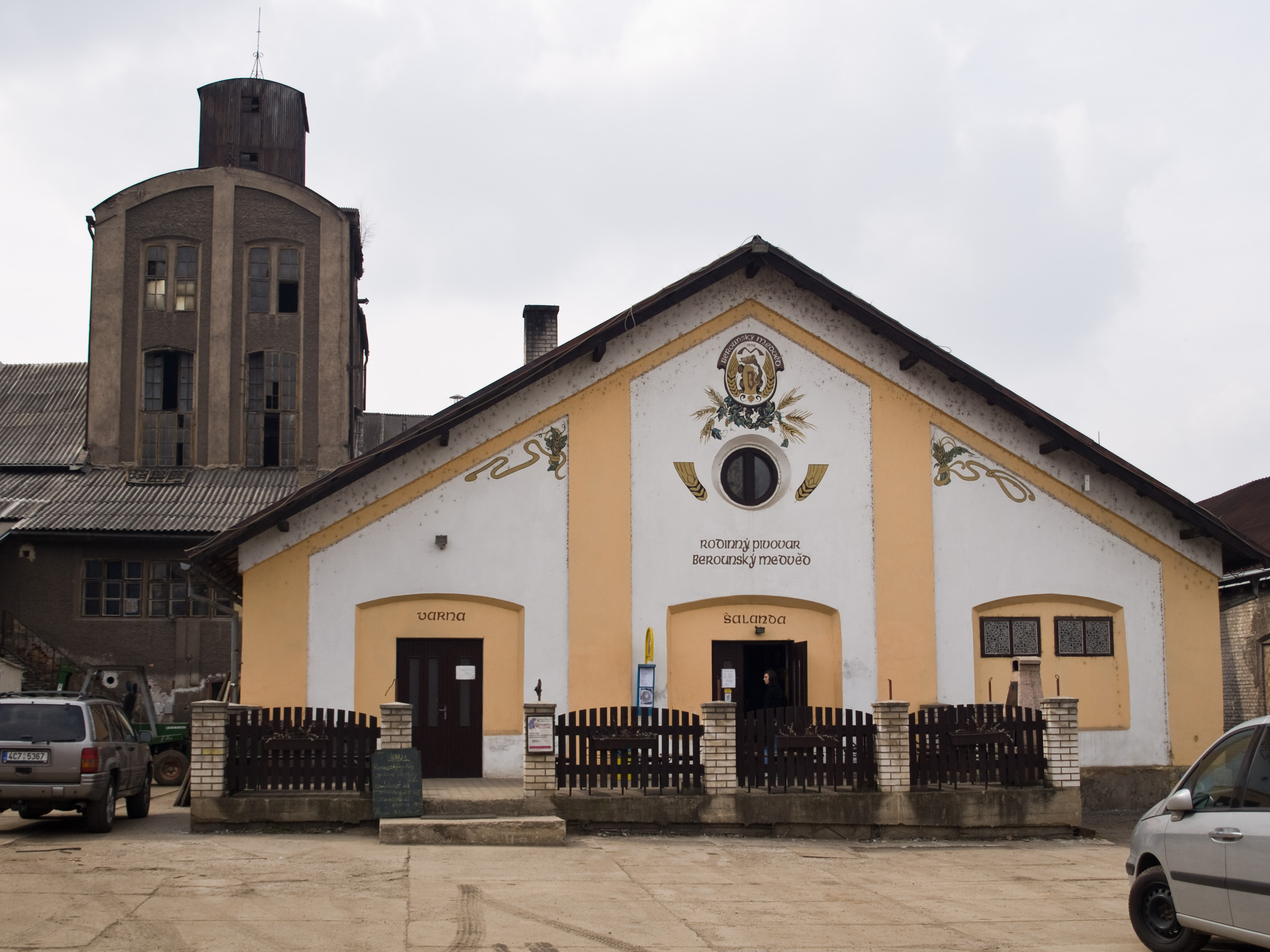 Brewery in Beroun, Czech Republic